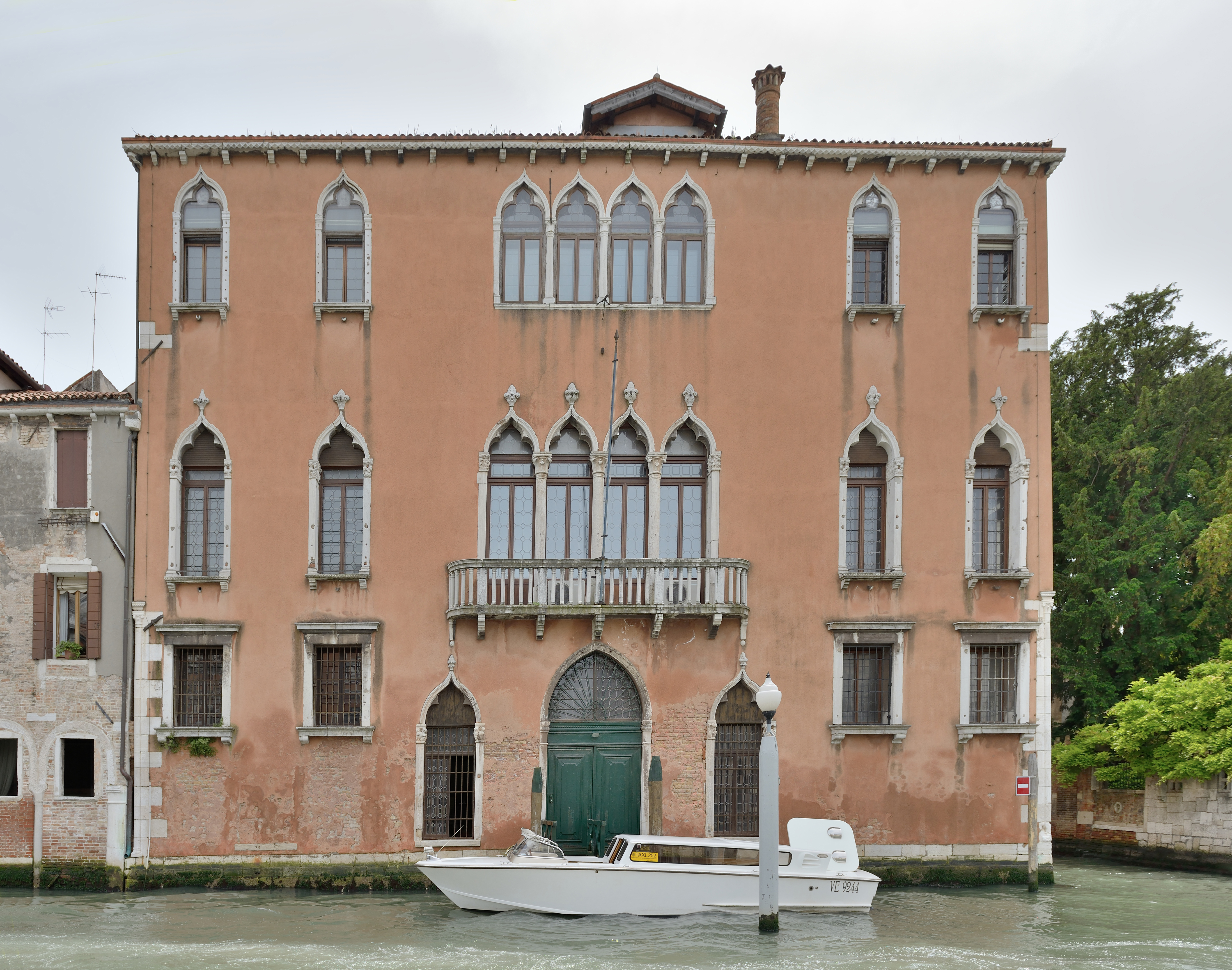 Palazzo Giovannelli on the Canal Grande in Venice.